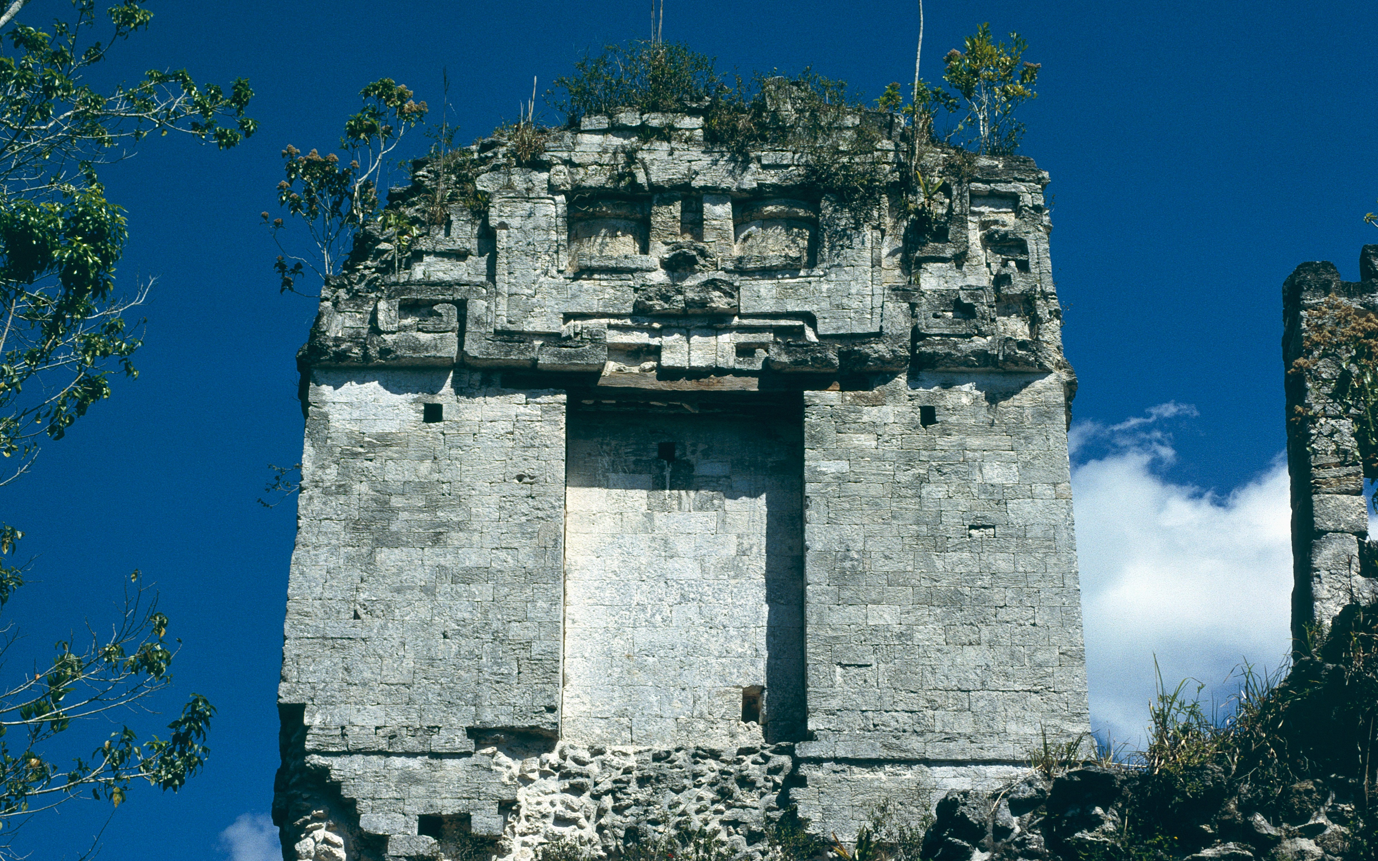 Río Bec, Campeche, Mexico: Group B, Towertemple